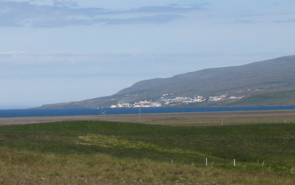 Hvammstangi as seen from road no. 1